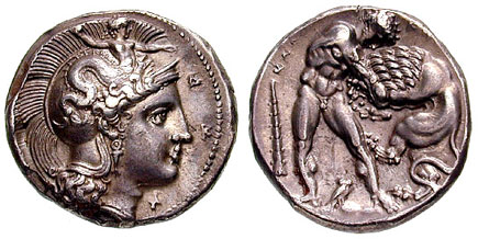 Lucania, Herakleia. Circa 390-340 BC. AR Nomos (7.85 g). Head of Athena right, wearing Corinthian helmet decorated with Skylla hurling a stone; DKF right [(heta[1])ΗΡΑΚΛΗΙΩΝ] (herakleiōn), Herakles standing facing, upper torso turned right, wrestling with the Nemean lion; club to left, owl between legs, KAL above club. Van Keuren 50; SNG ANS 64; Work 39 (same dies). Attractively toned EF, fine style, well struck, nice full crest.